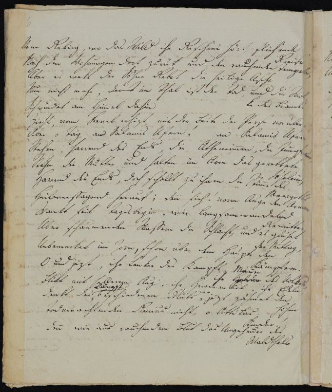 Manuscript of Friedrich Hölderlin: Der Archipelagus, page 6. From Homburg